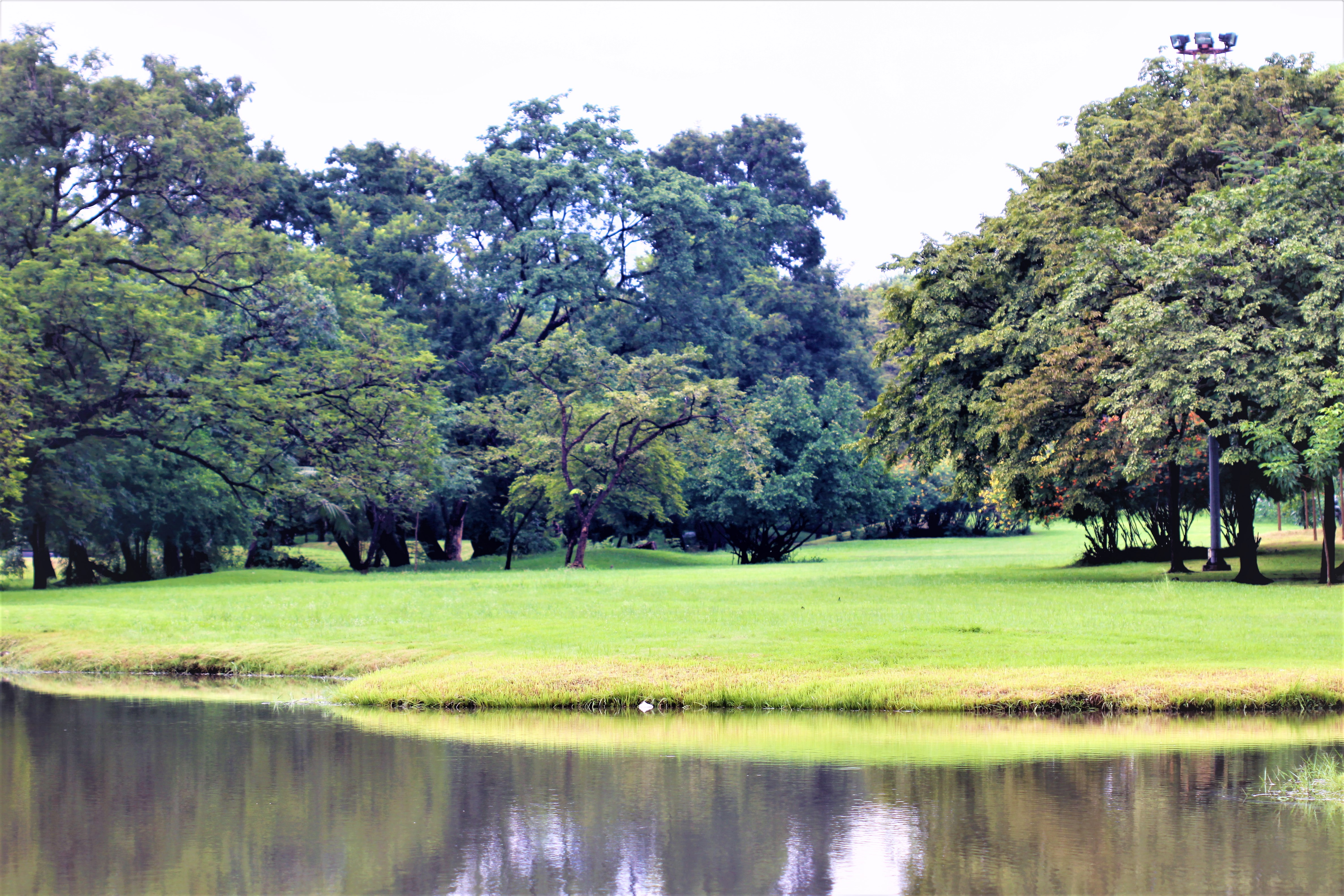 Wachirabenchathat Park (Rot Fai Park), Thailand